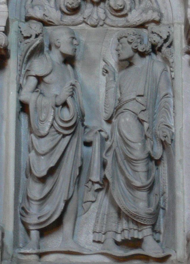 sights of Bamberg, Germany